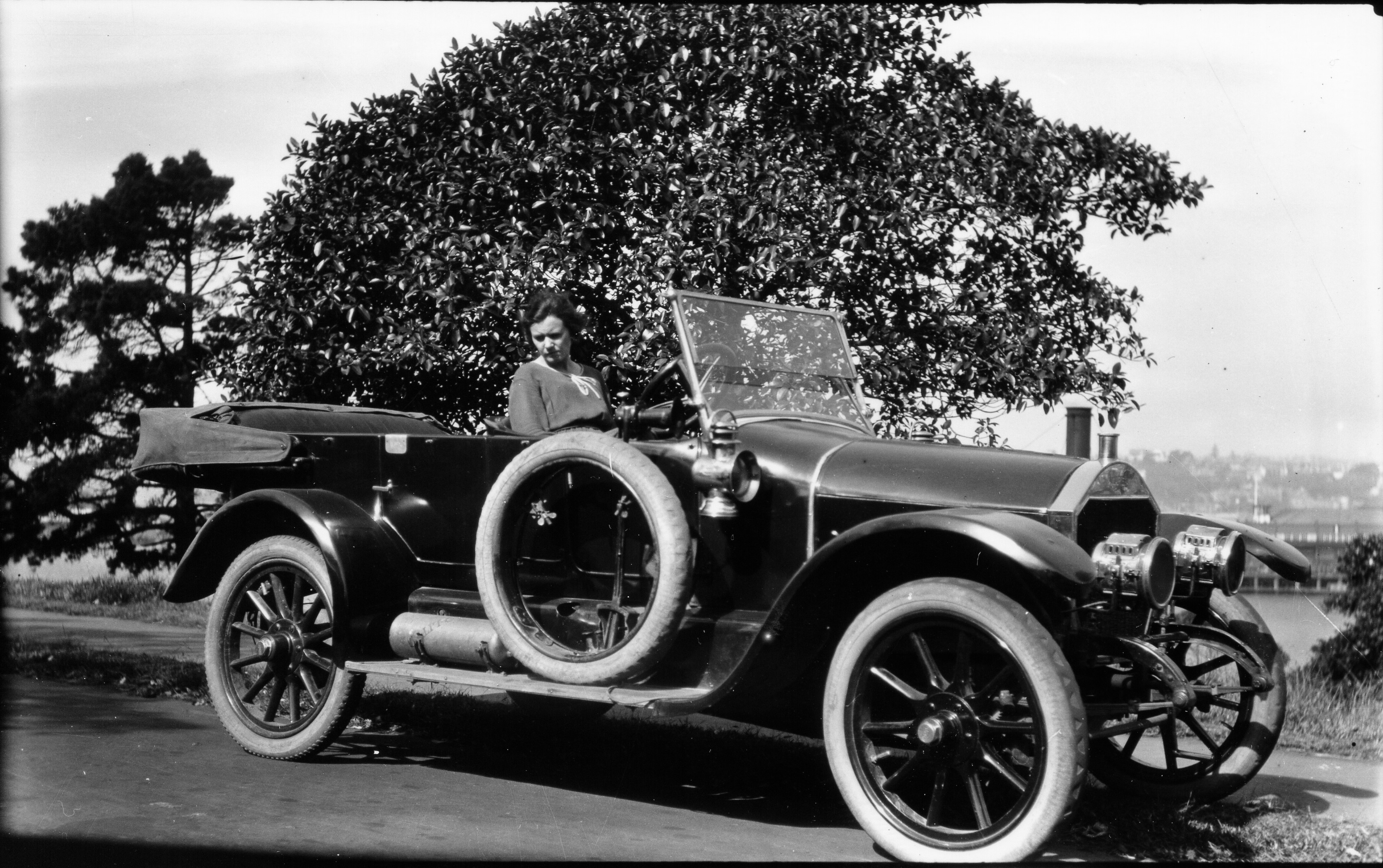 Eleanor Dark and Napier "Evangeline", 1922 Eleanor Dark (1901-1985). Notes: Possibly the Woolloomooloo docks are visible in the background, which would make this on Mrs Macquarie's Rd above the Boy Charlton Pool. Format: B&W photograph Rights Info: Copyright held Michael Dark Repository: Blue Mountains City Library